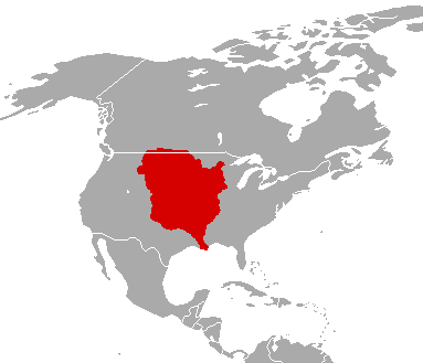 The Louisiana Territory as it was from 1763 to 1803.